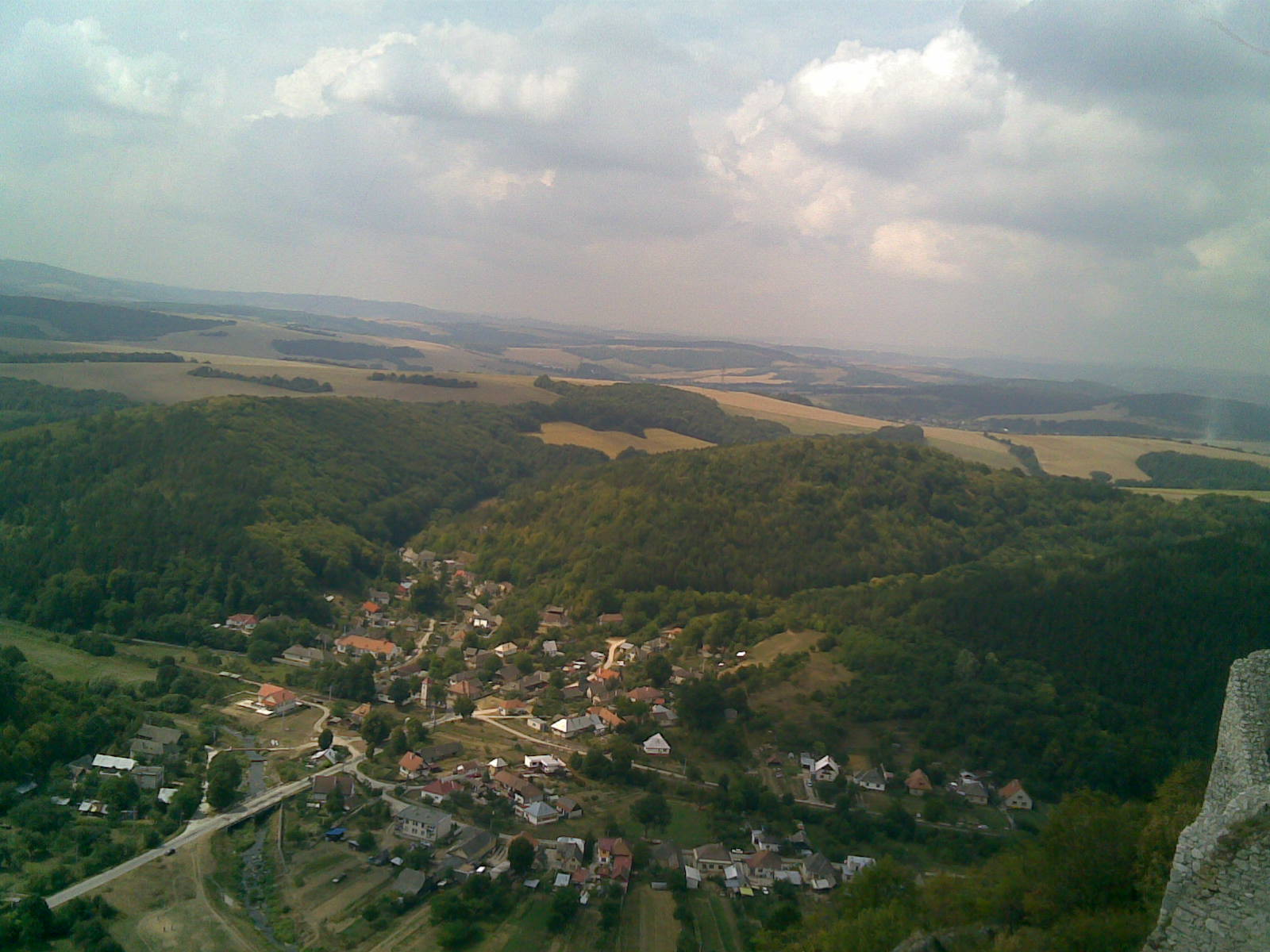 Višňové (Nové Mesto nad Váhom District) from Čachtice castle.